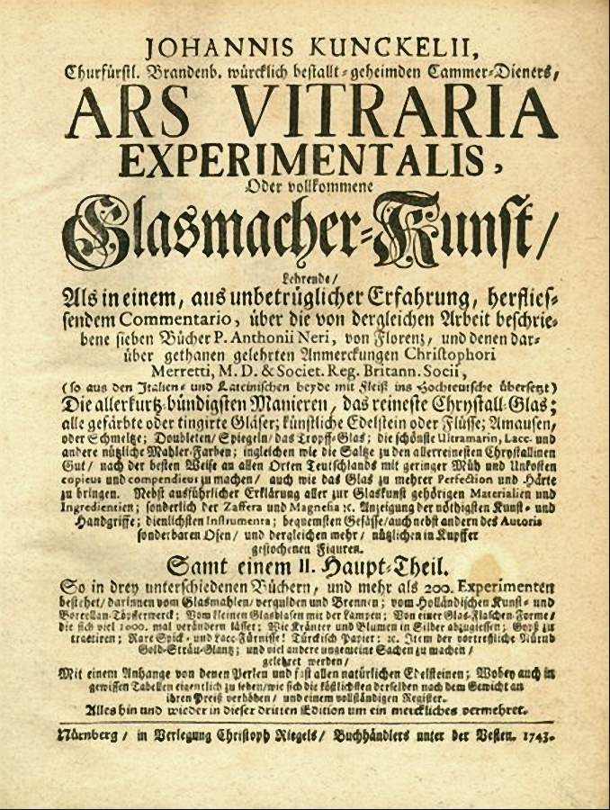 "Ars Vitraria Experimentalis oder vollkommene Glasmacher-Kunst [perfekt art of glass-making]", edition 1743, front page.